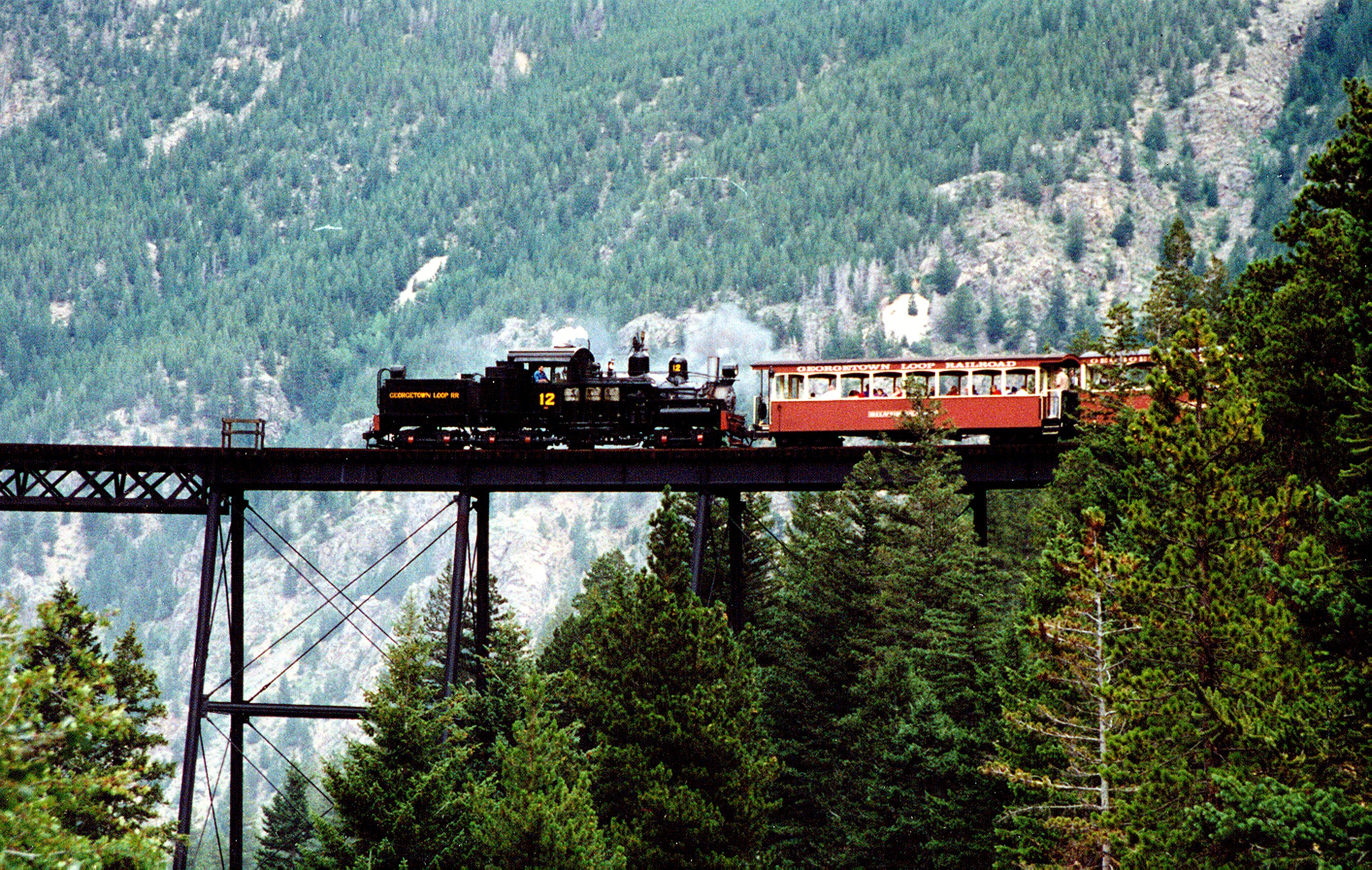 Georgetown Loop Railroad. The locomotive was emitting no smoke in the photo, which indicates that the train was nearing Georgetown after the downhill trip from Silver Plume. The engine is a rare Shay (geared) type.